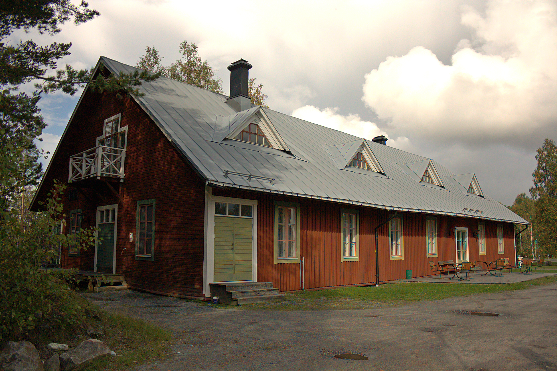 The "camp hut" at Vännäs läger